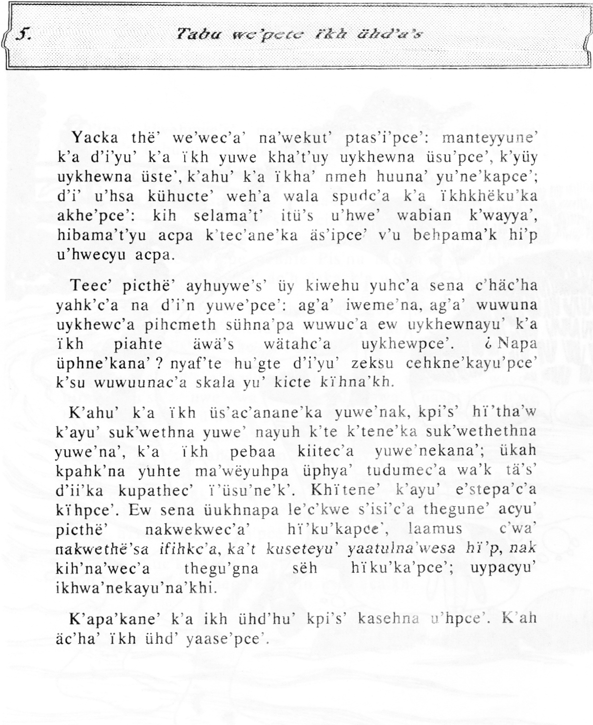 nasa yuwe tale